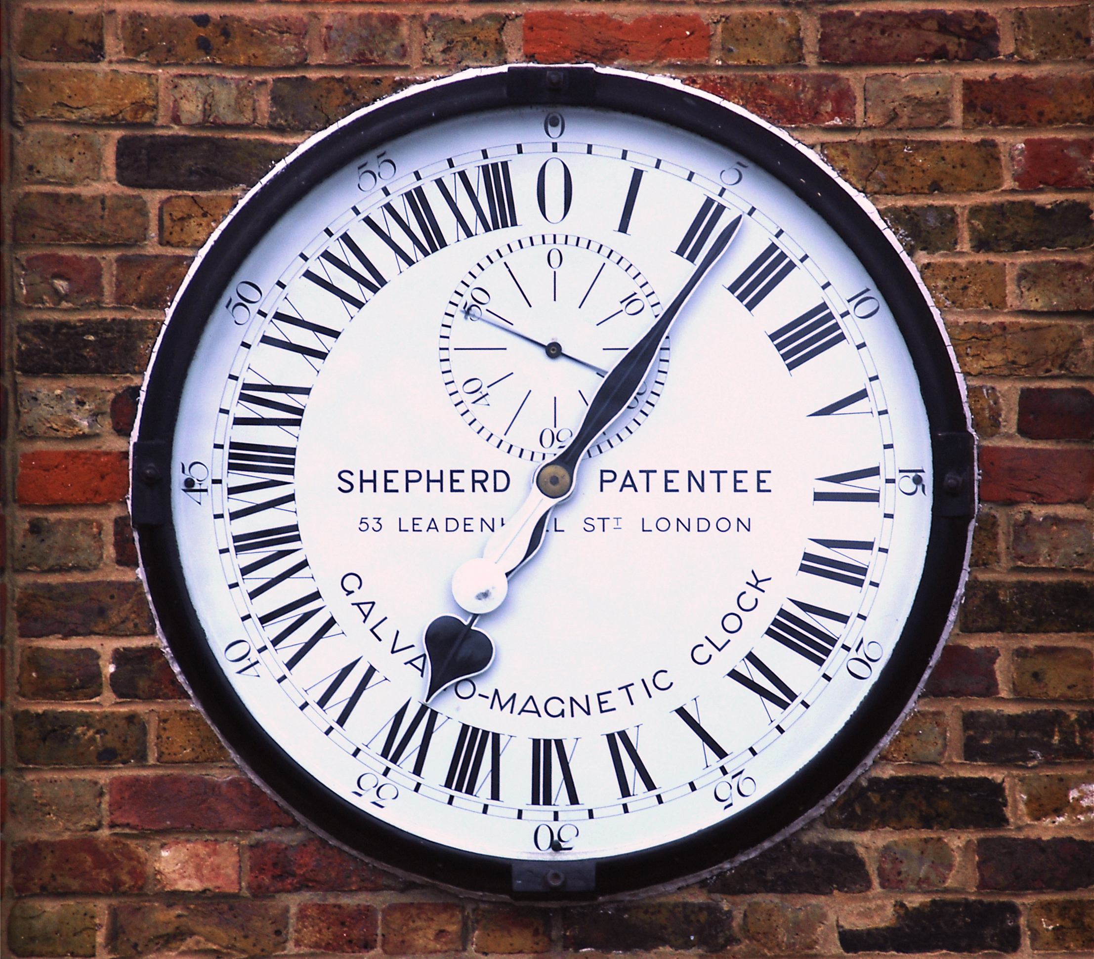 Shepherd gate clock at the Royal Observatory, Greenwich, UK.